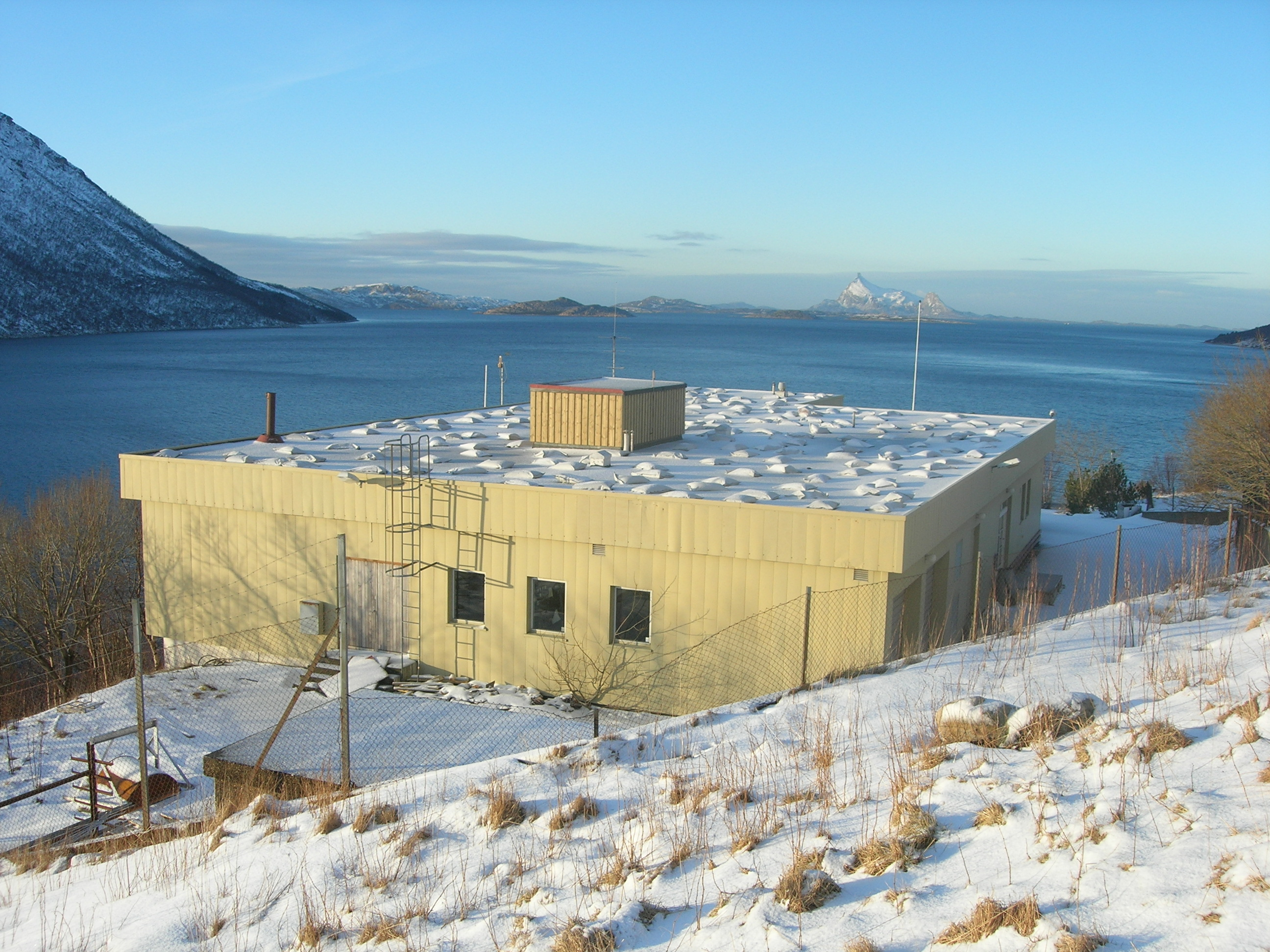 Omegastasjonen på Bratland